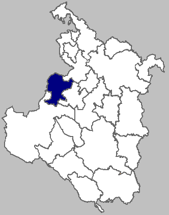 Self-made map of Bosiljevo municipality within Karlovac County.